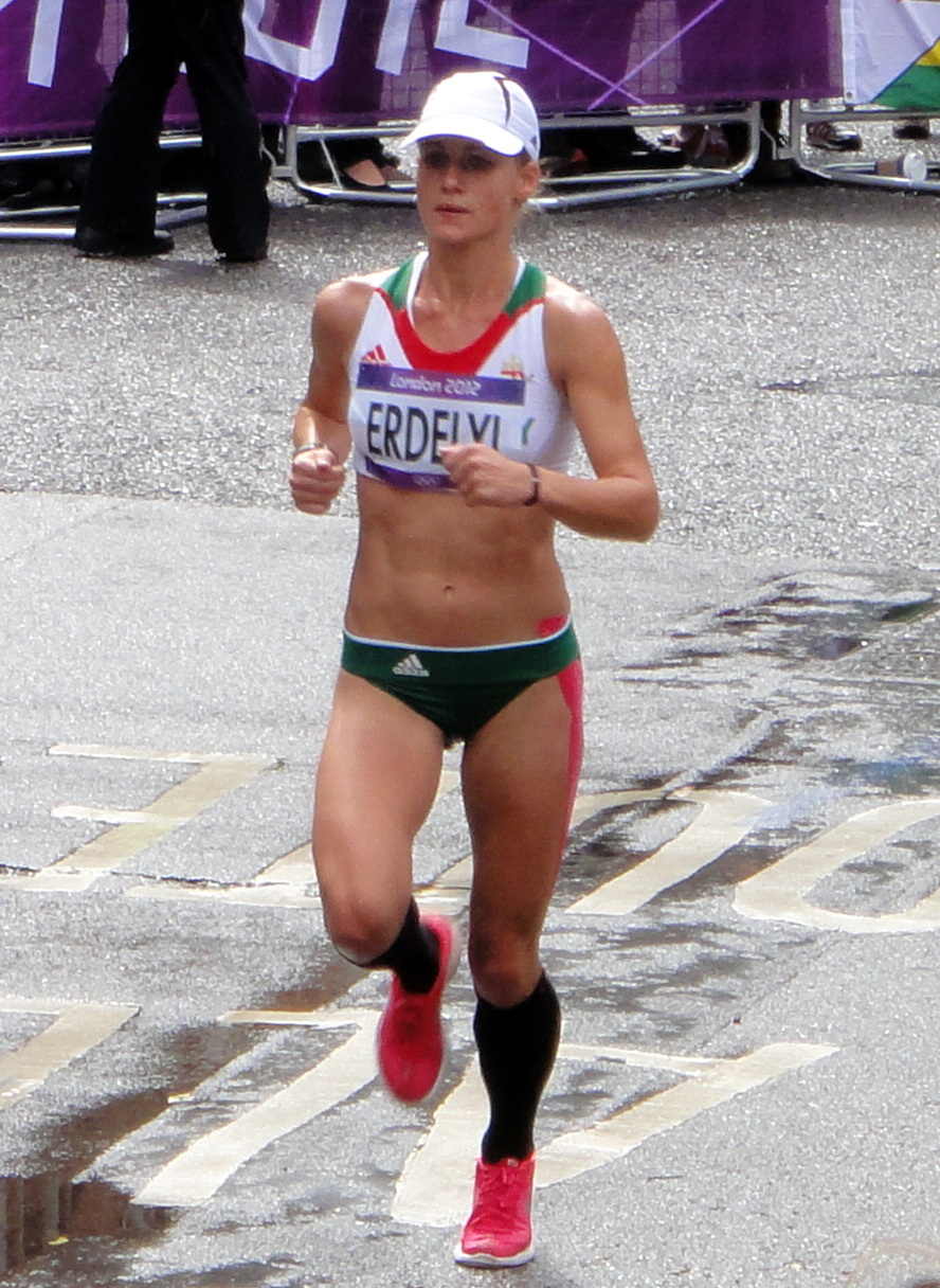 Zsofia Erdelyi (Hungary) - London 2012 Women's Marathon